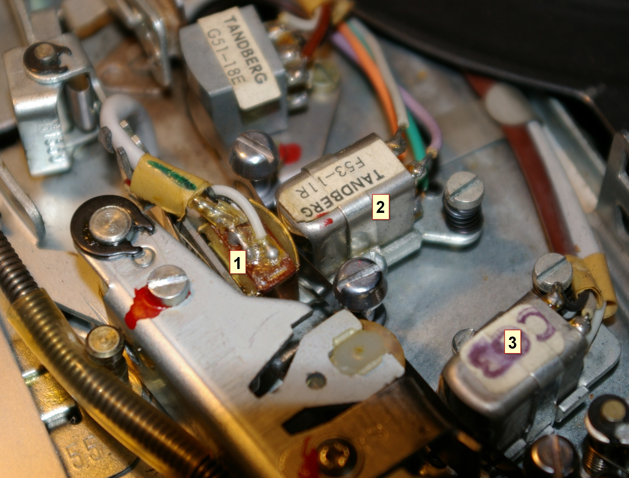 Cross-field bias system in working position: 1 - bias head: 2 - record head: 3 - playback head (Tandberg 4000X tape recorder).